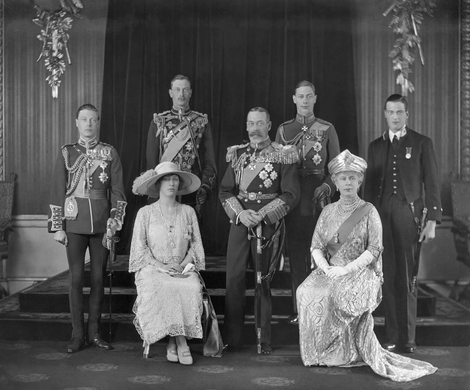 The Royal House of Windsor in 1923